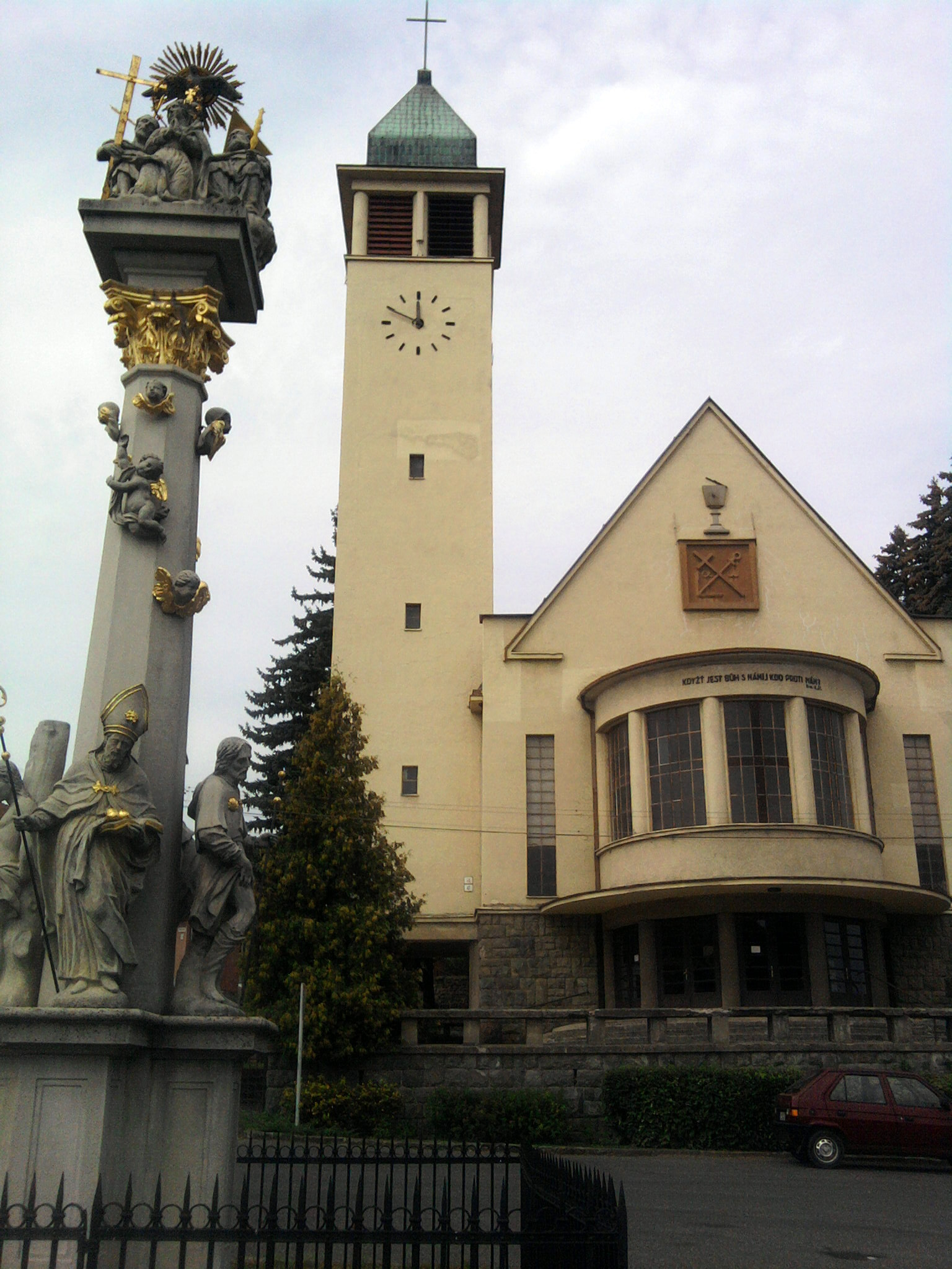 Ev. church in Pukanec, Holy Trinity column